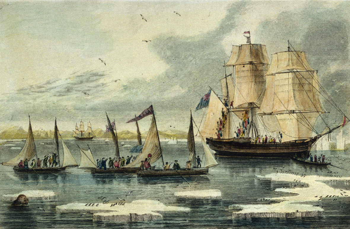 Hand-coloured, steel engraving showing the rescue of John Ross and his crew in 1833, after being stranded for four winters in the Arctic. Many people in England believed they were dead. By coincidence, Ross was found by the 'Isabella' the same ship he had commanded in 1818. She had subsequently returned to Hull, to her former service as an Arctic whaler. The 'Isabella’s' astonished crew informed Ross that he had been dead for two years.